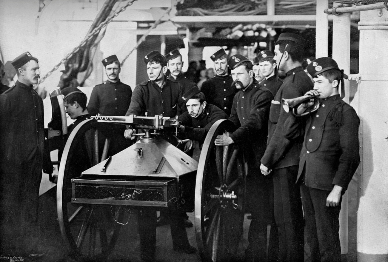 5-barrel Nordenfelt Mk II machine-gun and Royal Navy Marine gunners, 1890s.